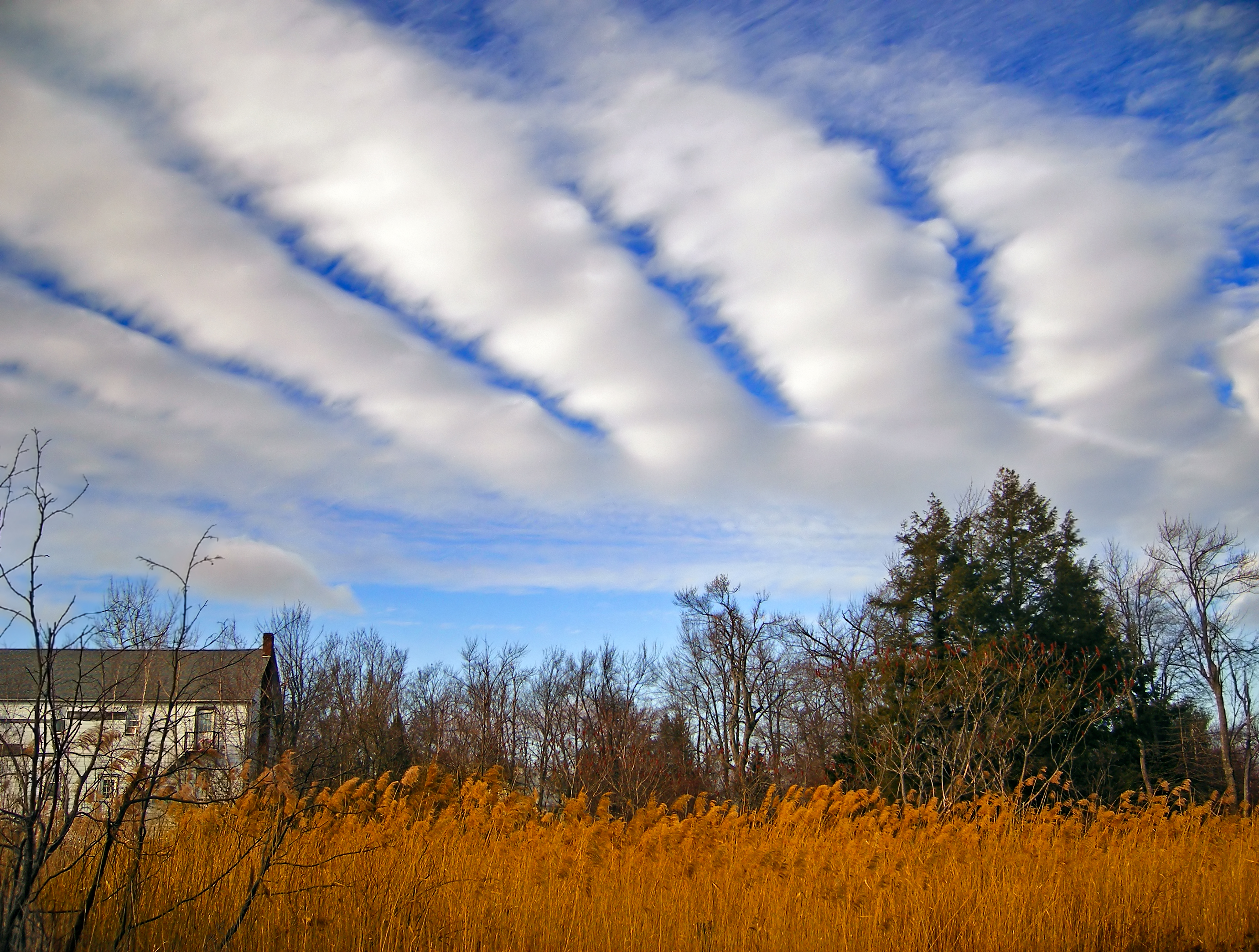 Stratocumulus undulatus radiatus perlucidus, Coolbaugh Township, Monroe County